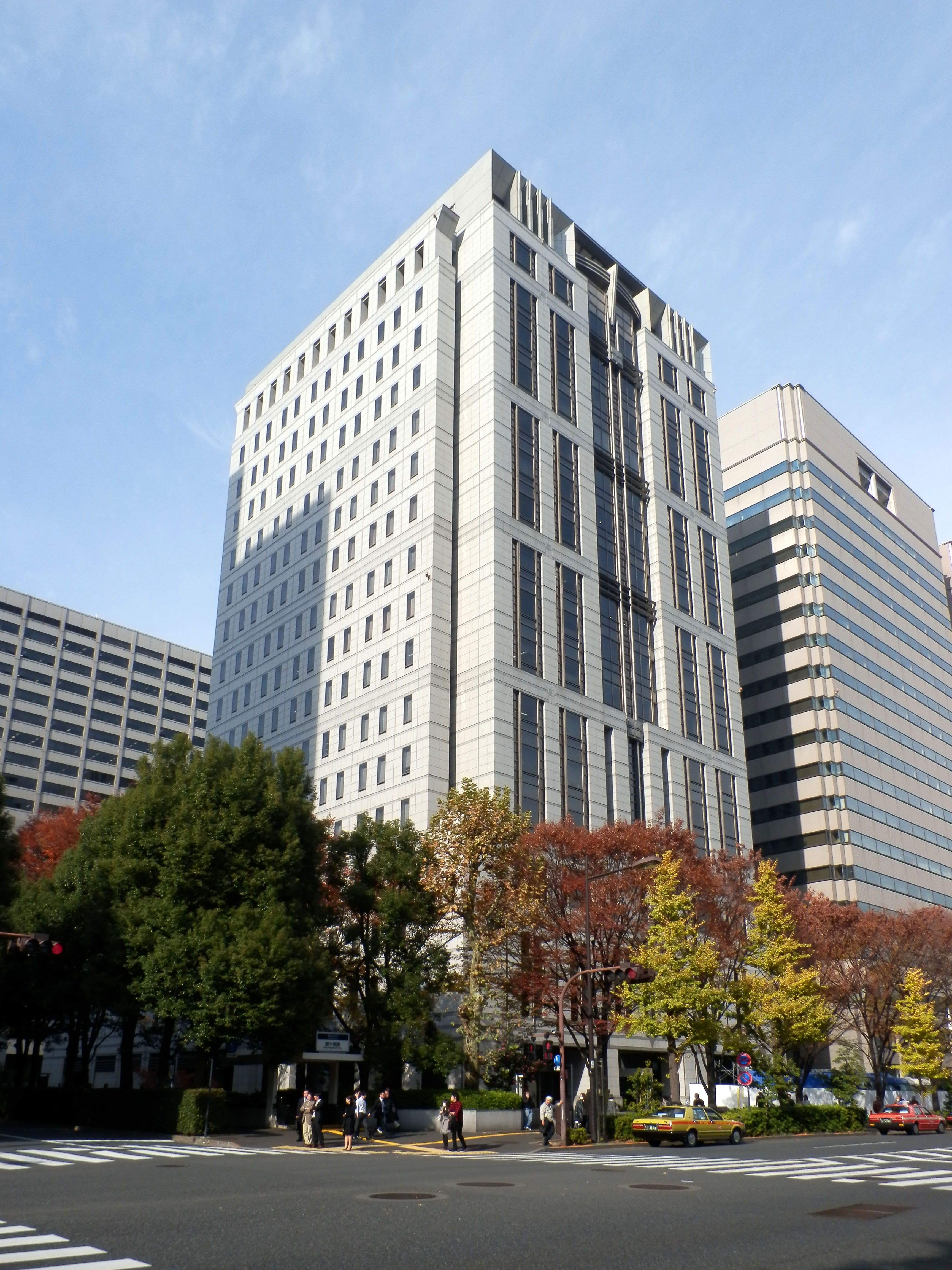 Bengoshi Kaikan (Lawyers' office building in Tokyo, Japan)